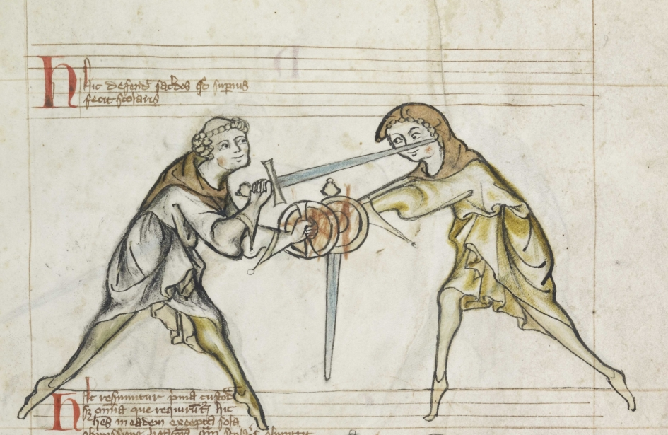 Detail of fol. 5r from Royal Armouries Ms. I.33